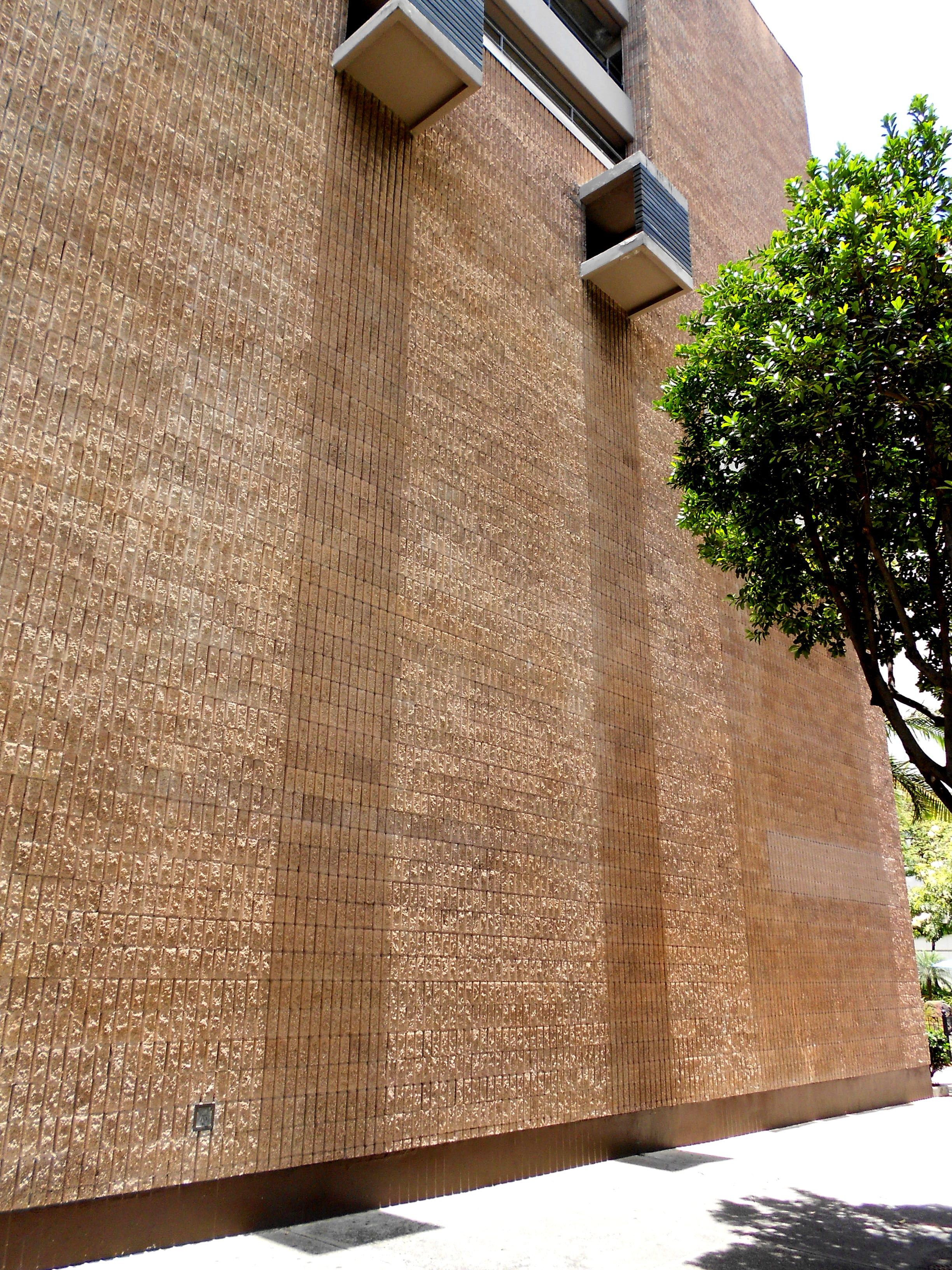 Actually, taken a few minutes just after since I had to wait for a passing cloud.